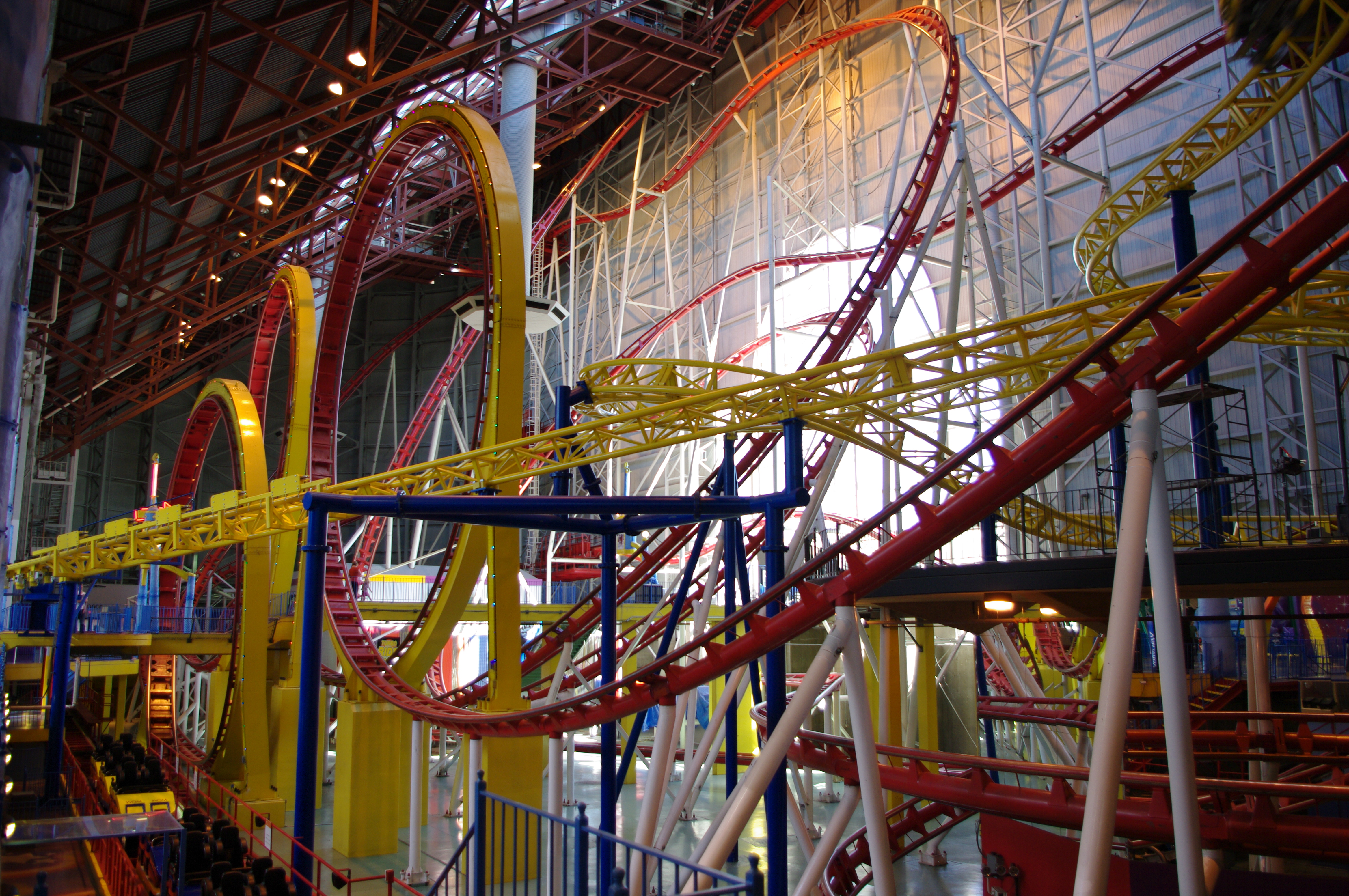 The Minderbender (and part of the Galaxy Orbiter) in Galaxyland located in the West Edmonton Mall.